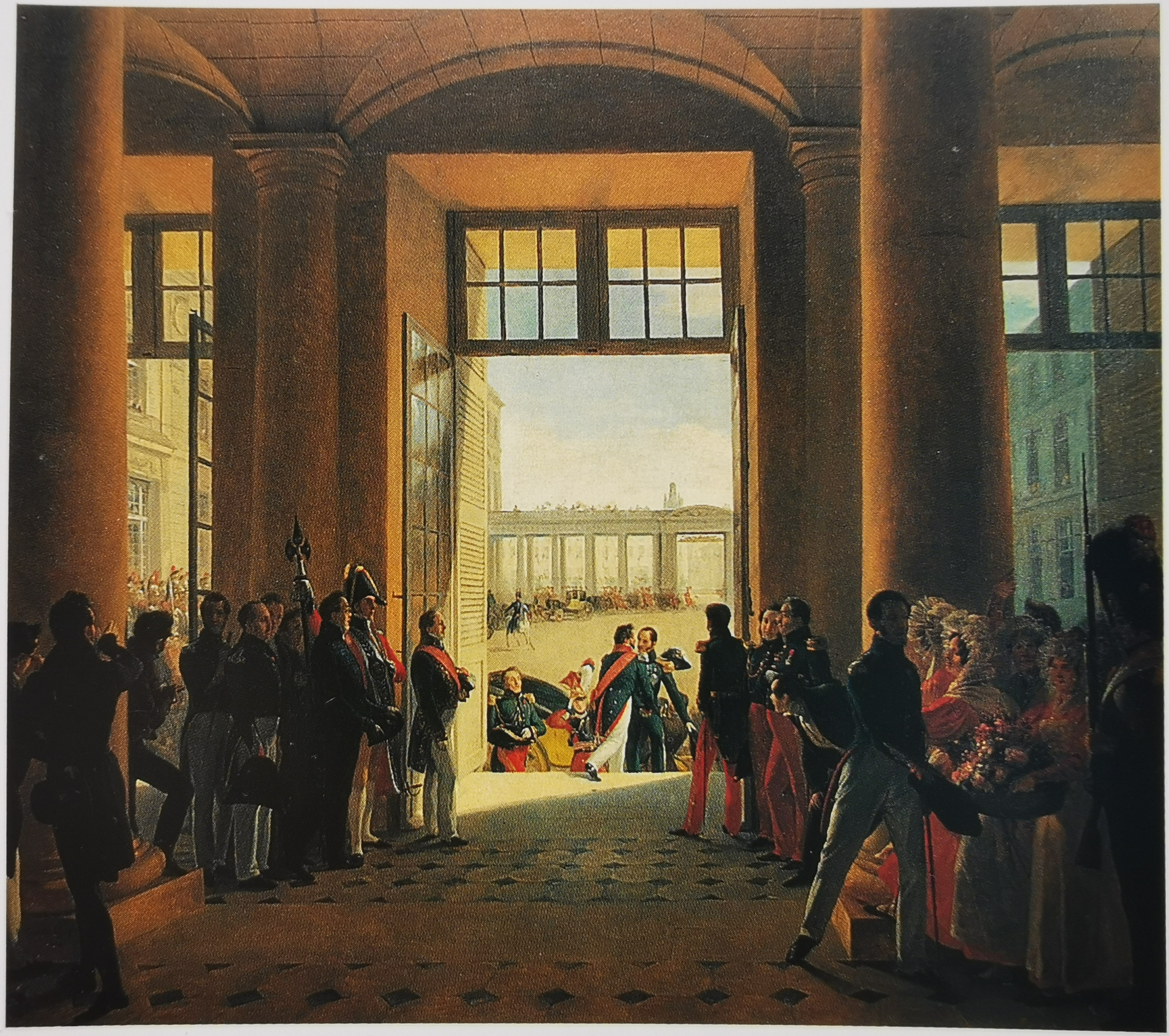 The reception in Compiègne of king Leopold I by king Louis-Philippe. Painting by Antoine Van Ysendonck, 1832. Belgium, Royal collection, inv. 0278. Oil on canvas, 100 x 110 cm